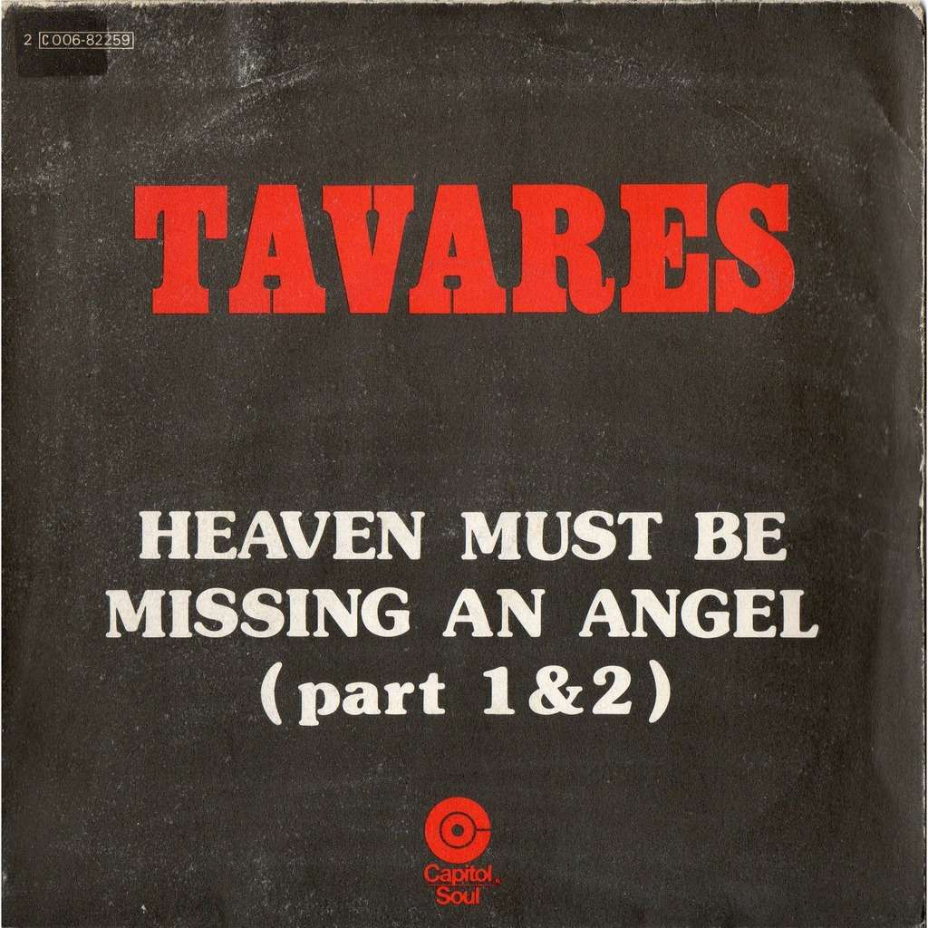 Artwork for French release of "Heaven Must Be Missing an Angel" by Tavares